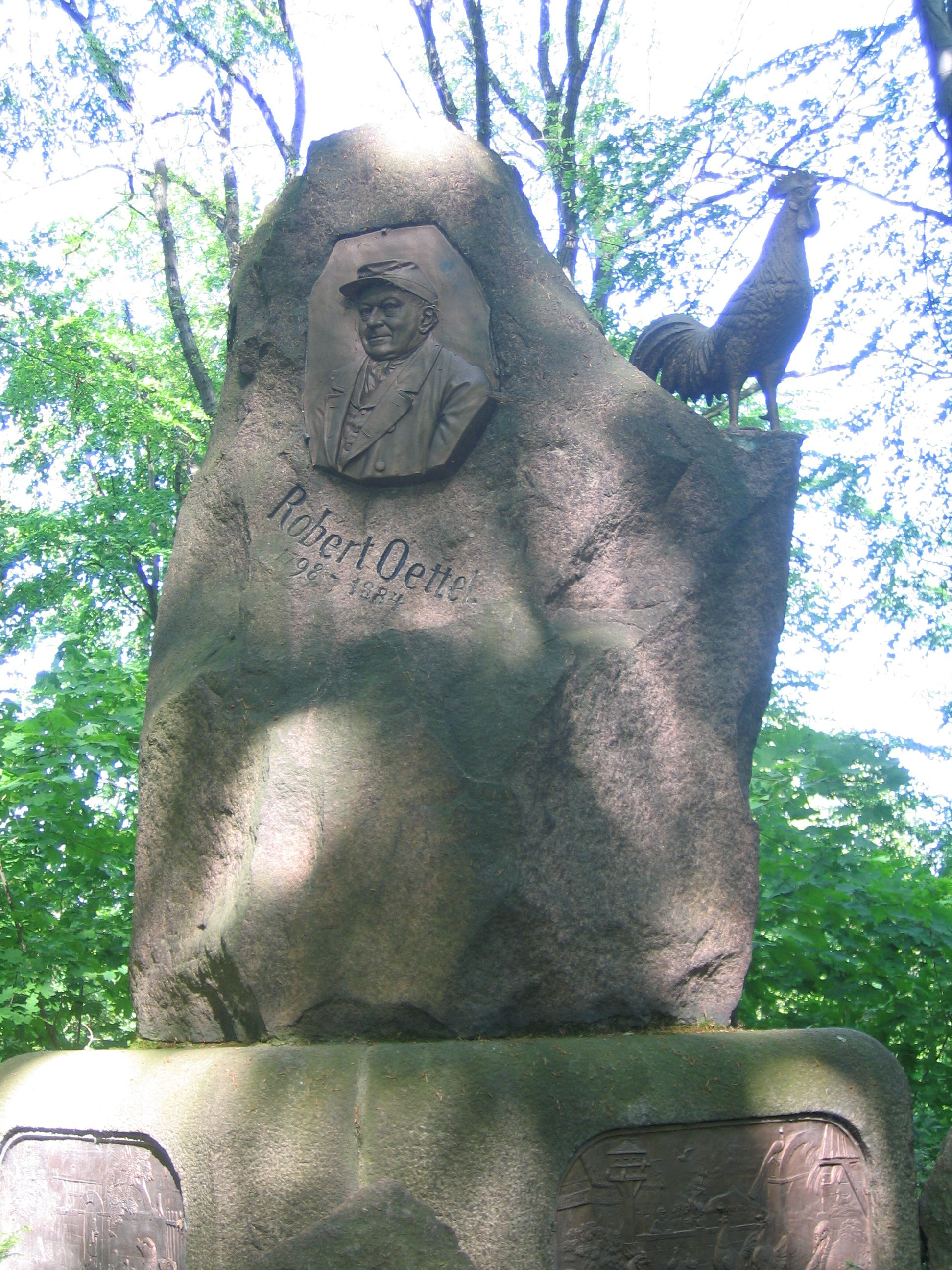 Monument to Robert Oettel, Goerlitz